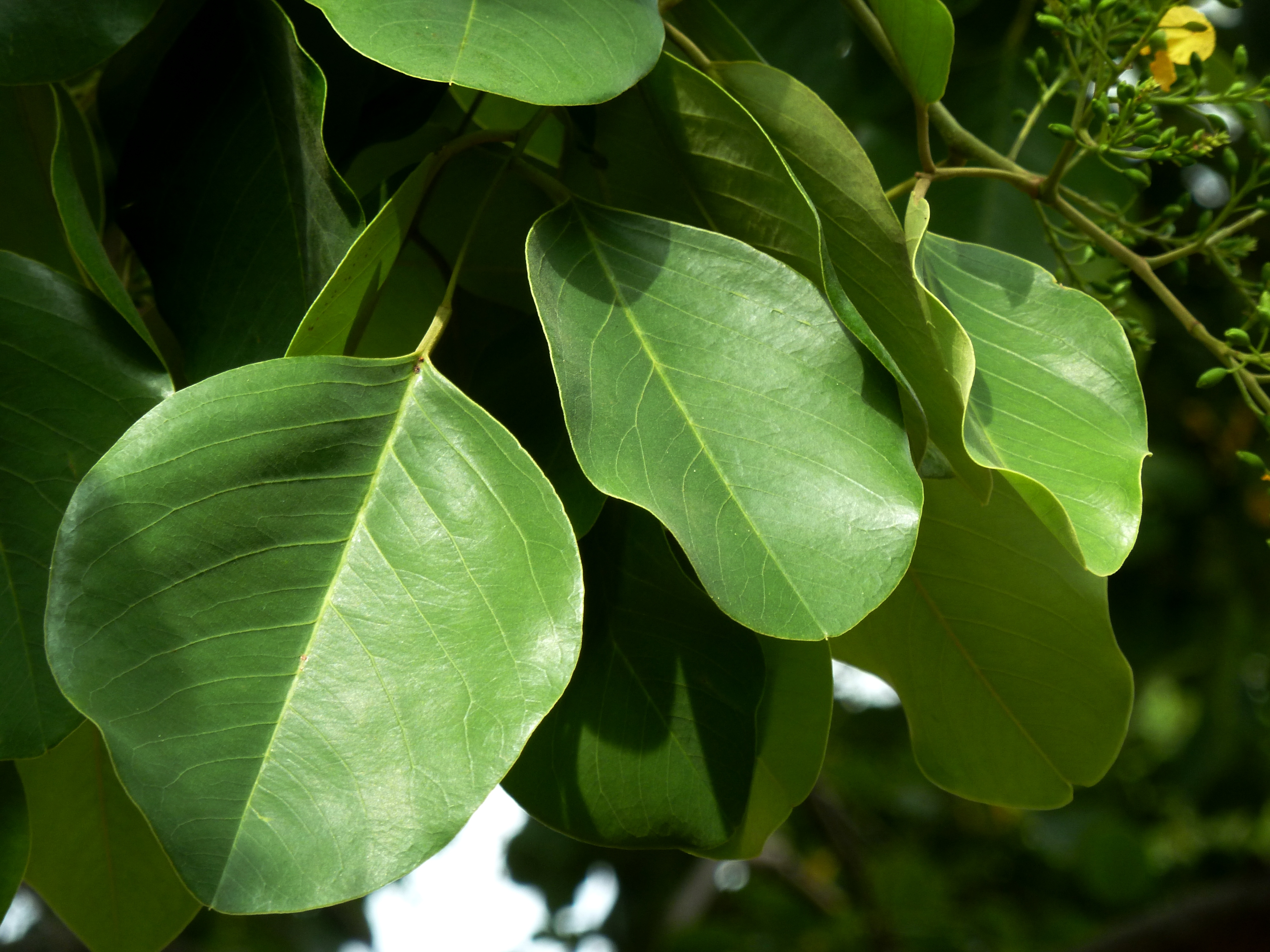 Compound leaves of a Round-leaved bloodwood in suburban Pretoria, South Africa